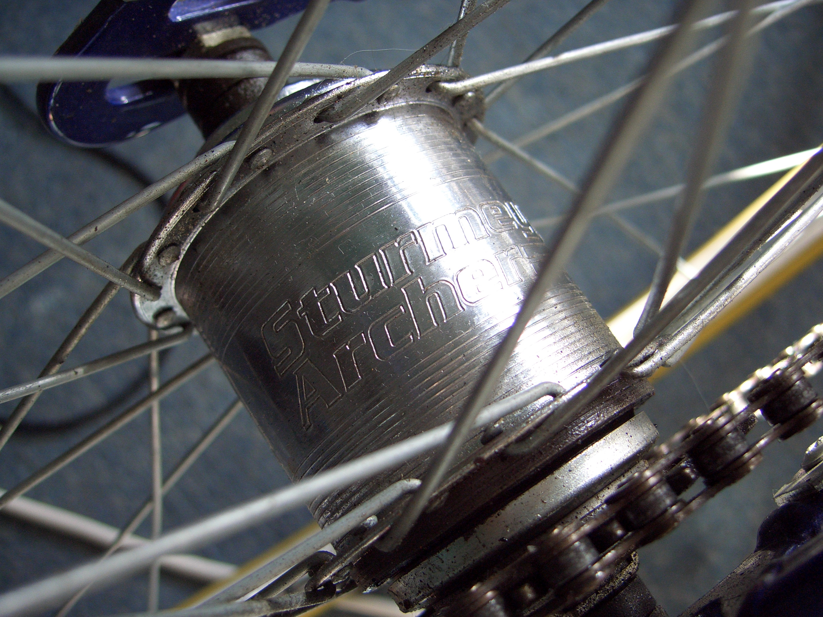 This is a photo of a Sturmey Archer AW type three speed hub gear. The photo was taken by me (Robin May) and the gear is in my Raleigh Chiltern Pioneer bike. The hub shown in the photograph was made in 1998. Copyright (c) Robin May 2006